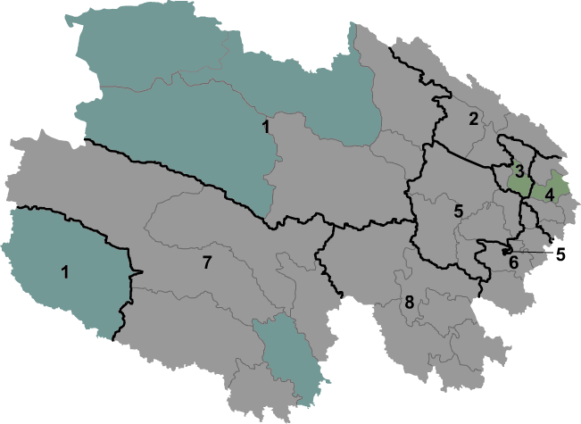 Map of prefectures of Qinghai Province